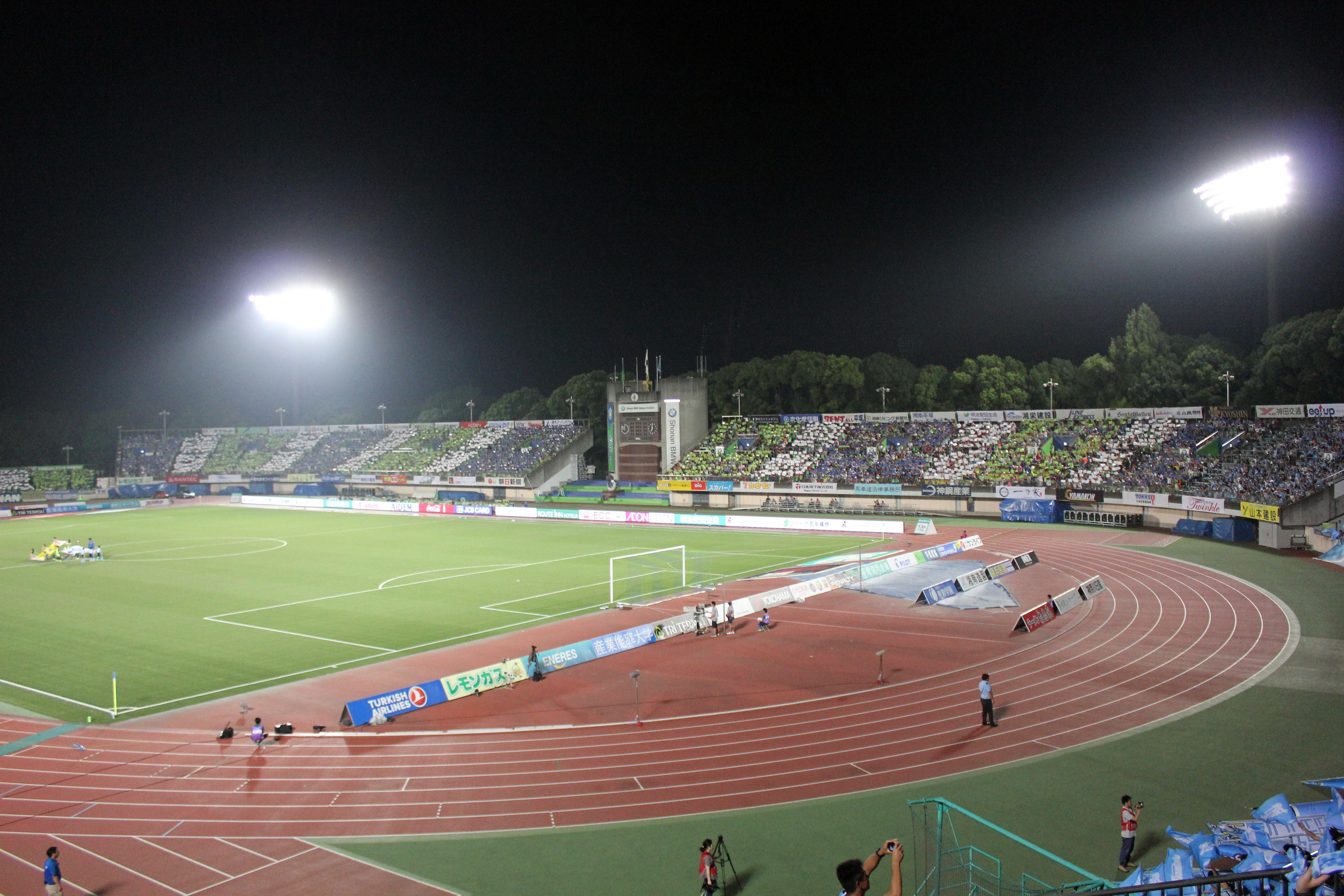 Shonan-BMW Stadium